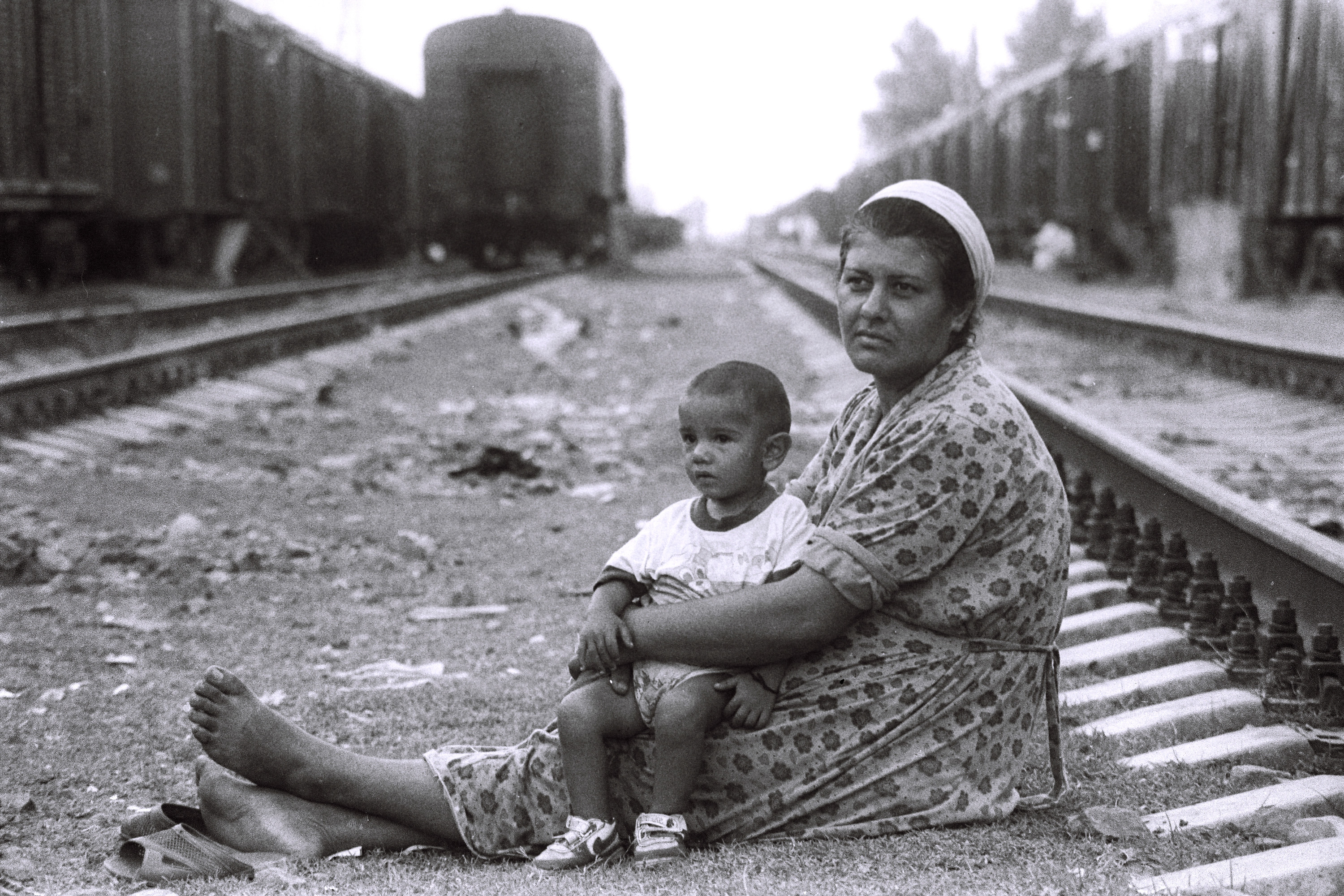 Azerbaijani refugees from Karabakh in Yevlakh